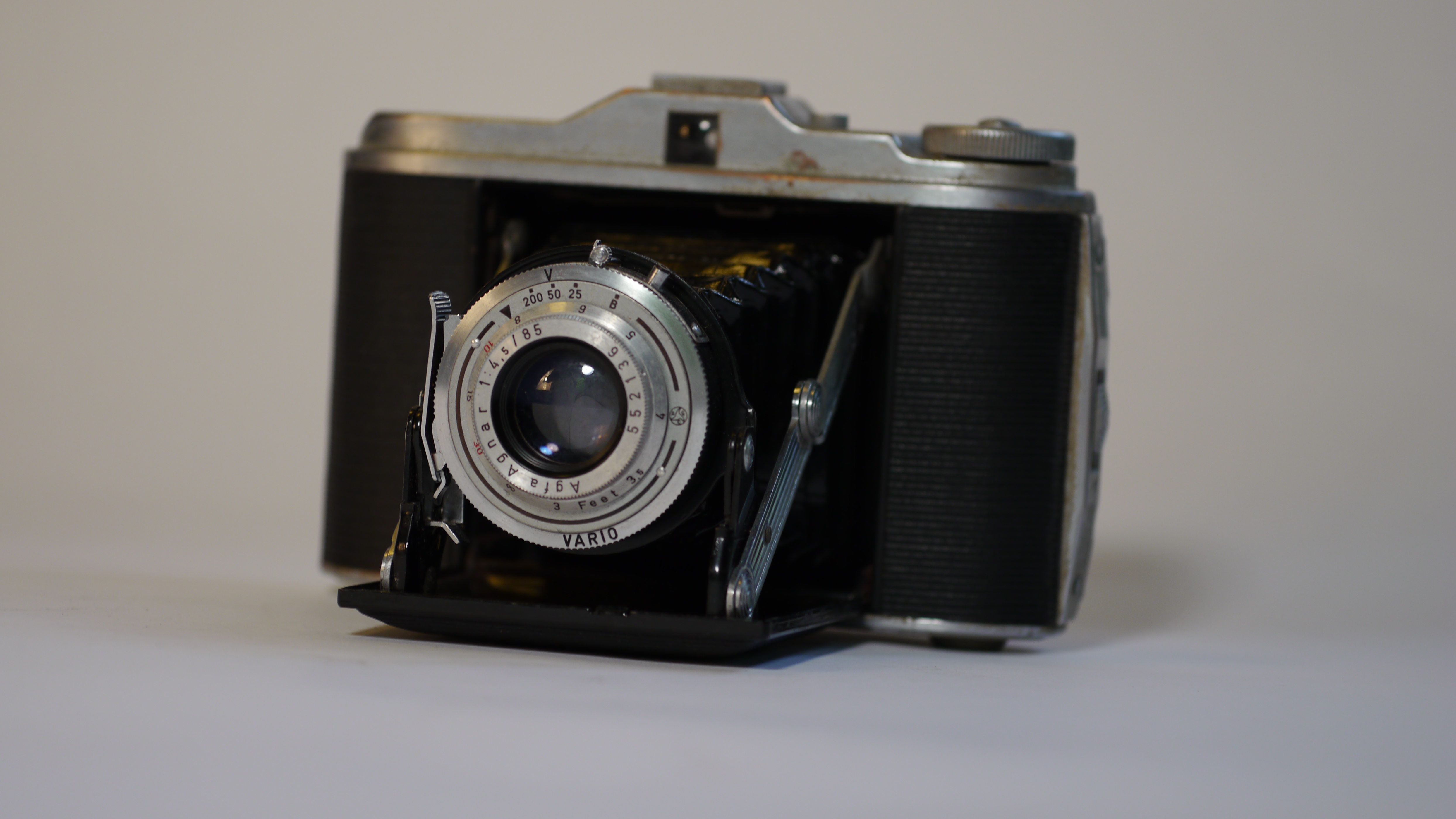 These are more old cameras in Charlie Graf's collection. This is a Ansco Speedex - circa 1940/50s. It uses 120 film.